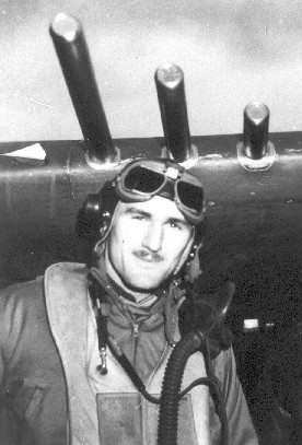 John W. Guckeyson poses in front of his P-51 Mustang fighter.